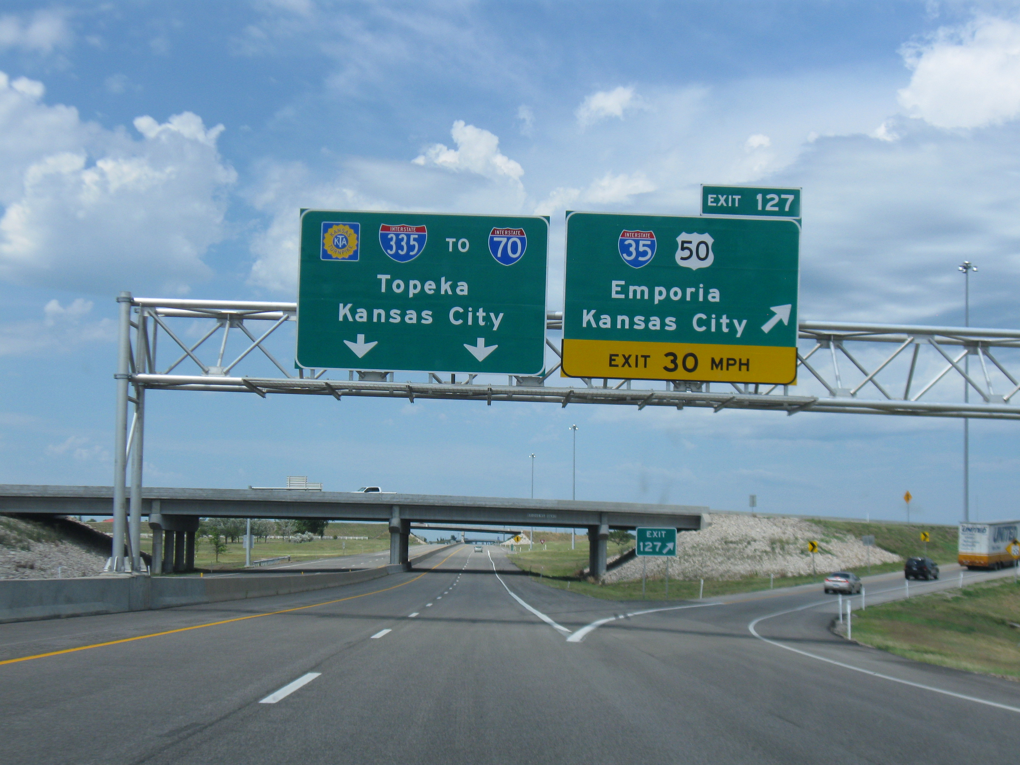 Exit 127 from the Kansas Turnpike. Travelers must exit to continue on Interstate 35 to Kansas City. Continuing on the Kansas Turnpike leads to Topeka via Interstate 335.